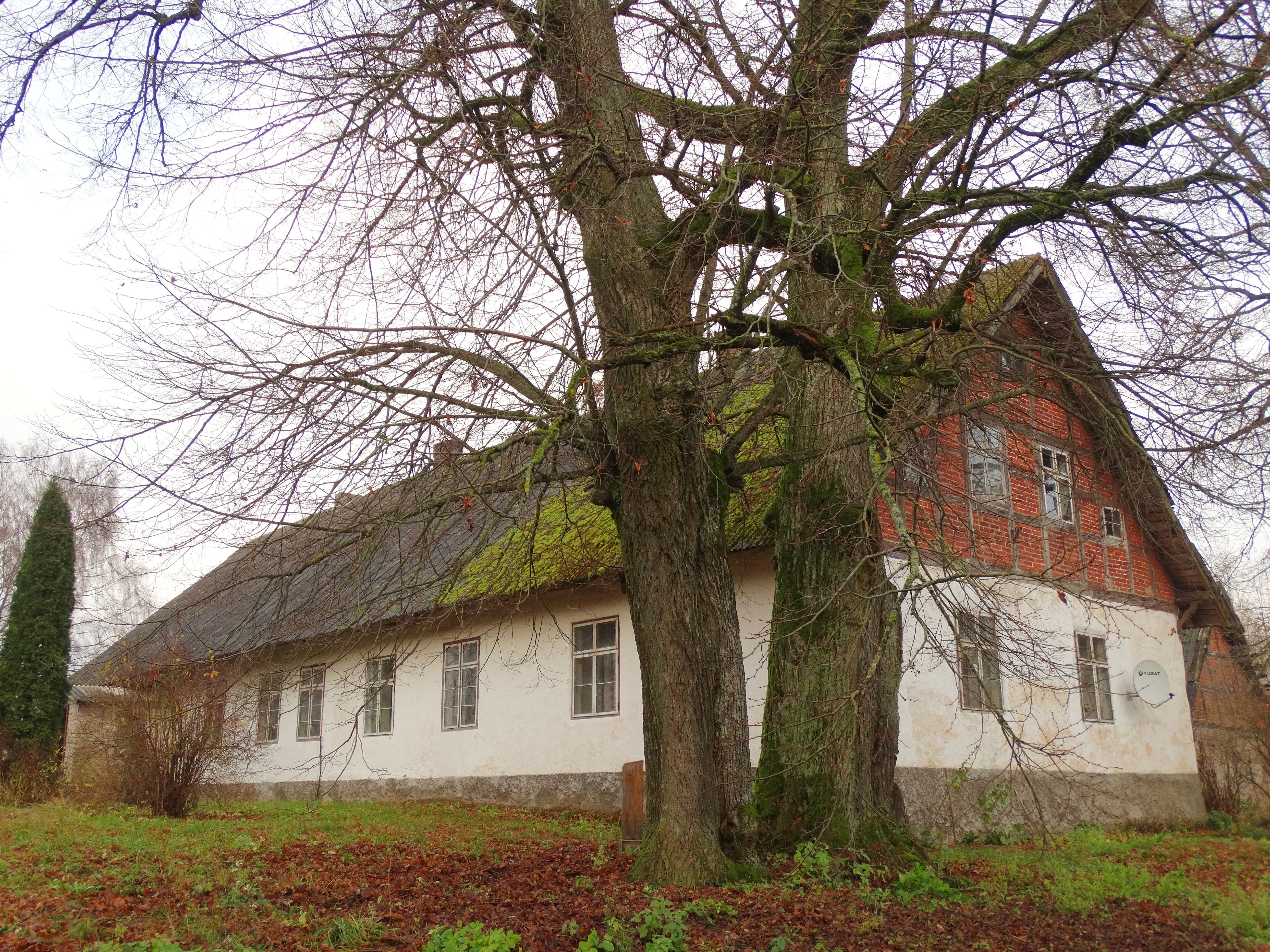 Lime tree of Queen of Prussia Louise, Piktupėnai, Pagėgiai Municipality, Lithuania